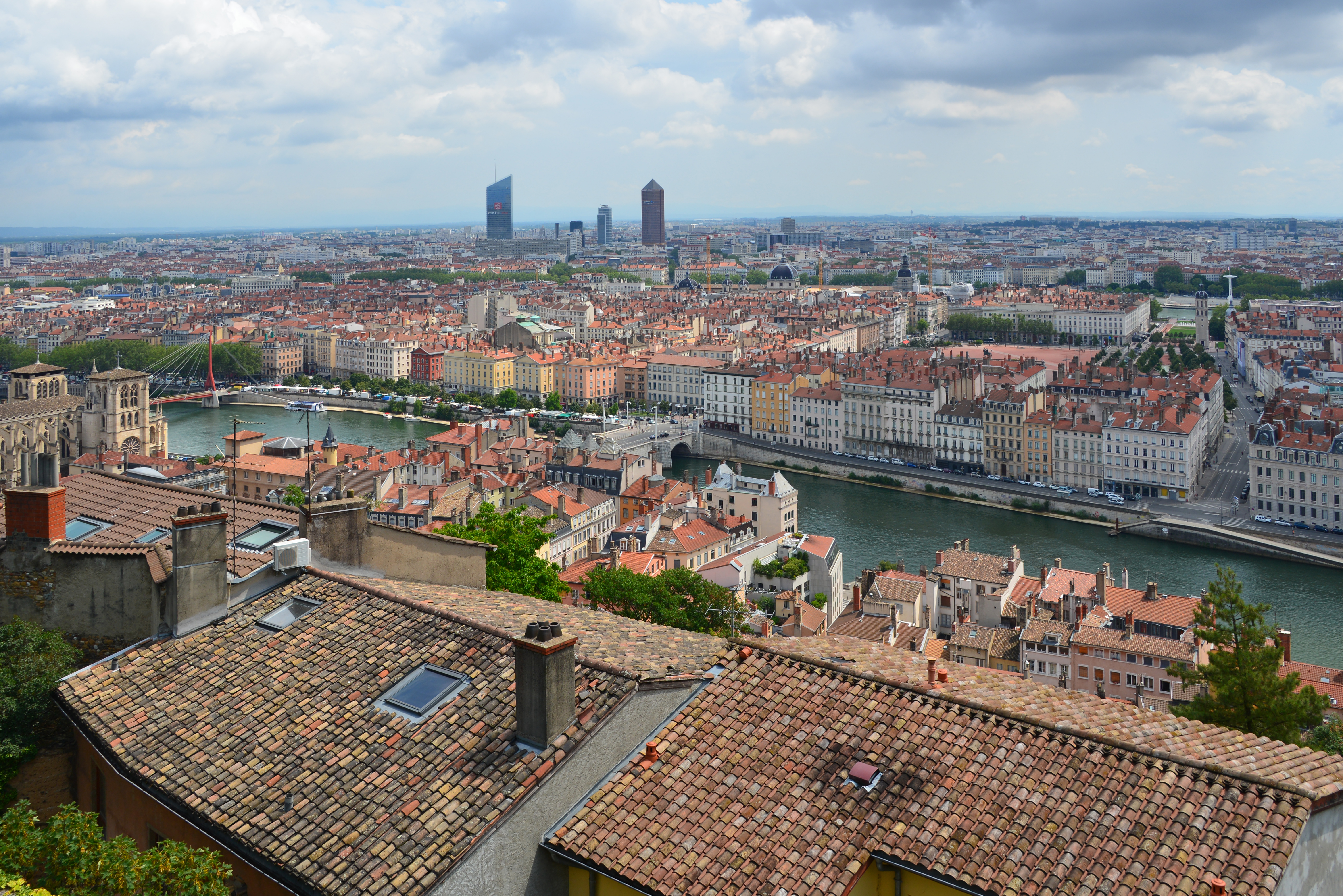 Lyon in July 2016, France.